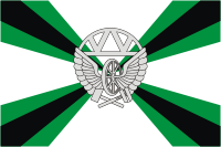 Flag of Federal Service of the Railway Troops 2007